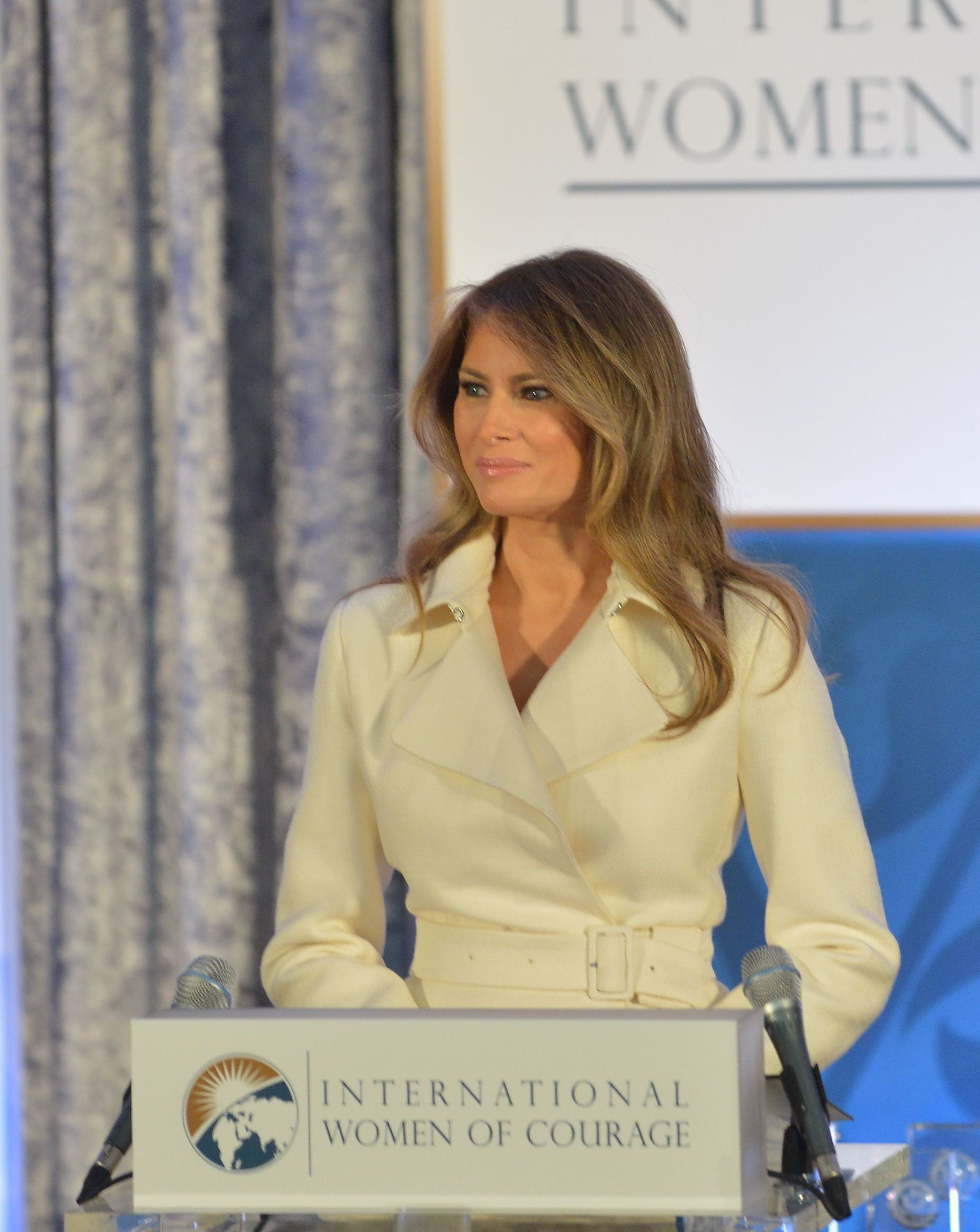 Melania Trump at International Women of Courage Awards 2017